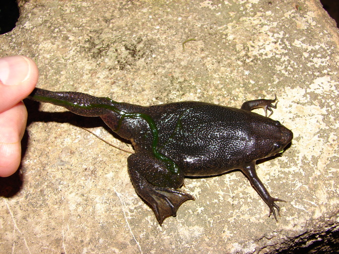 Pipa carvalhoi